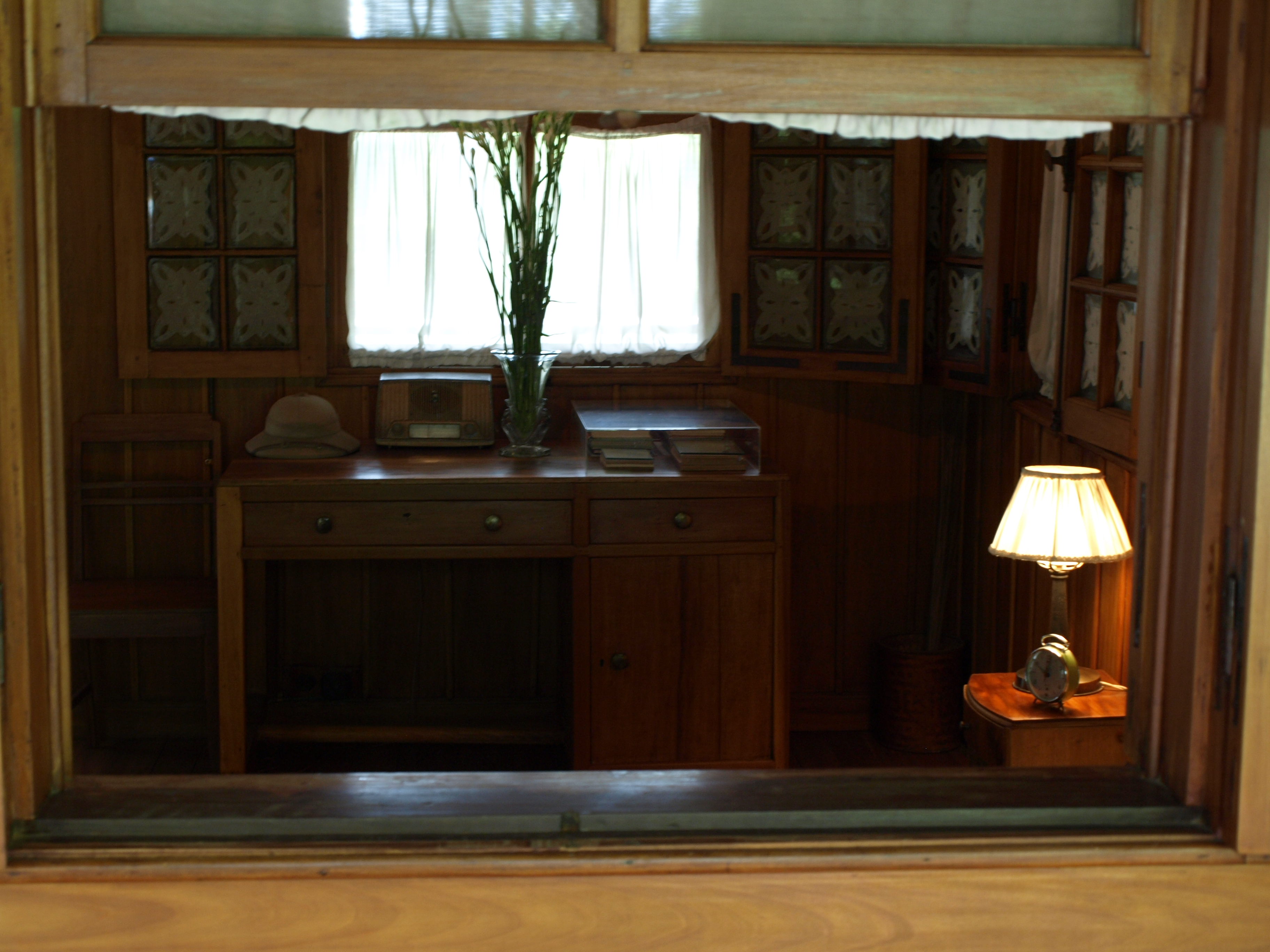 Ho Chi Minh's Stilt House, Hanoi